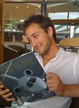 Image of Joe Blackman